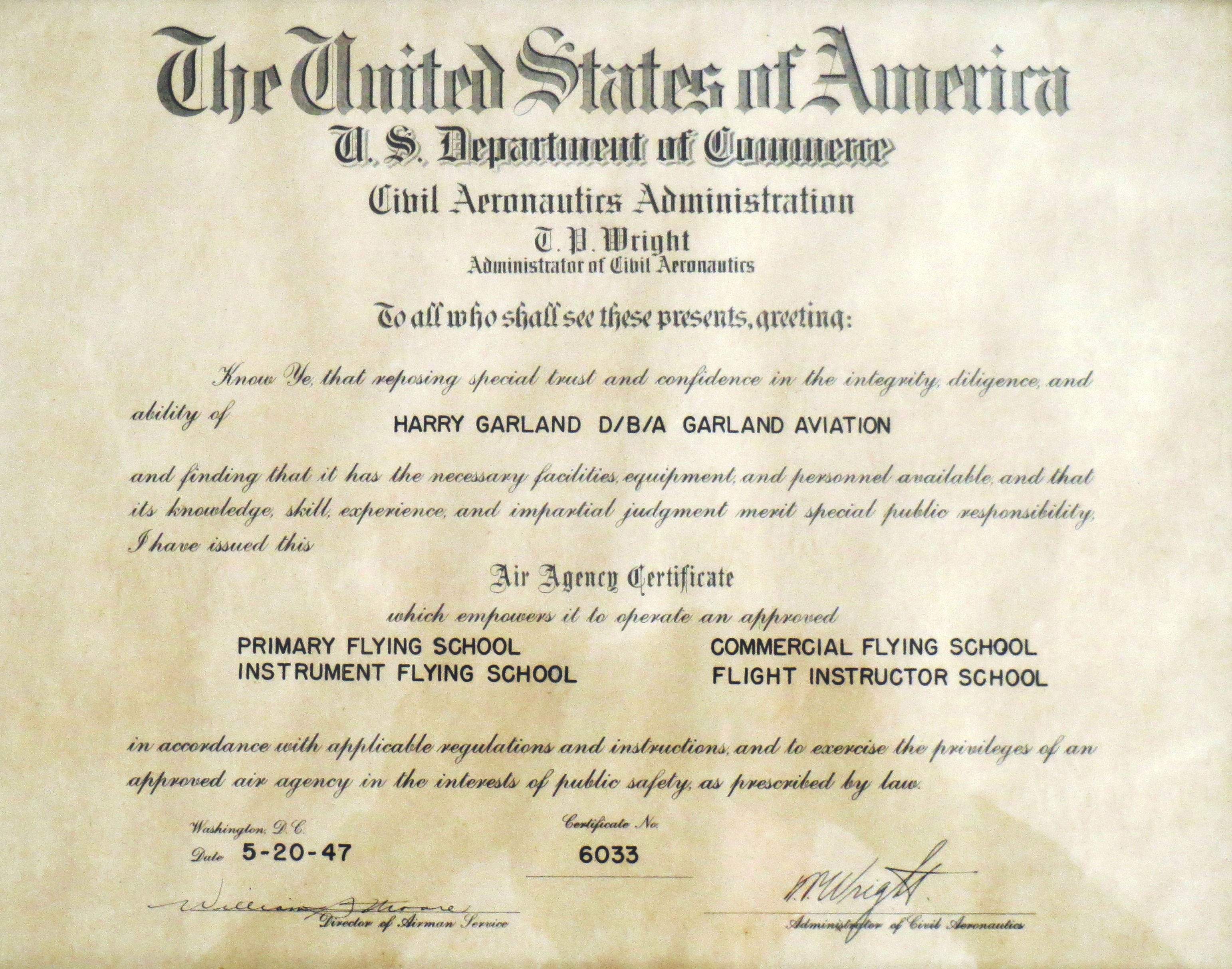 Aviation Air Agency Certificate issued to Harry G. Garland in 1947. Harry G. Garland operated a flight school at Garland Seaplane Base on the Detroit River. Certificate signed by T. P. Wright (Theodore Paul Wright), Administrator of Civil Aeronautics.